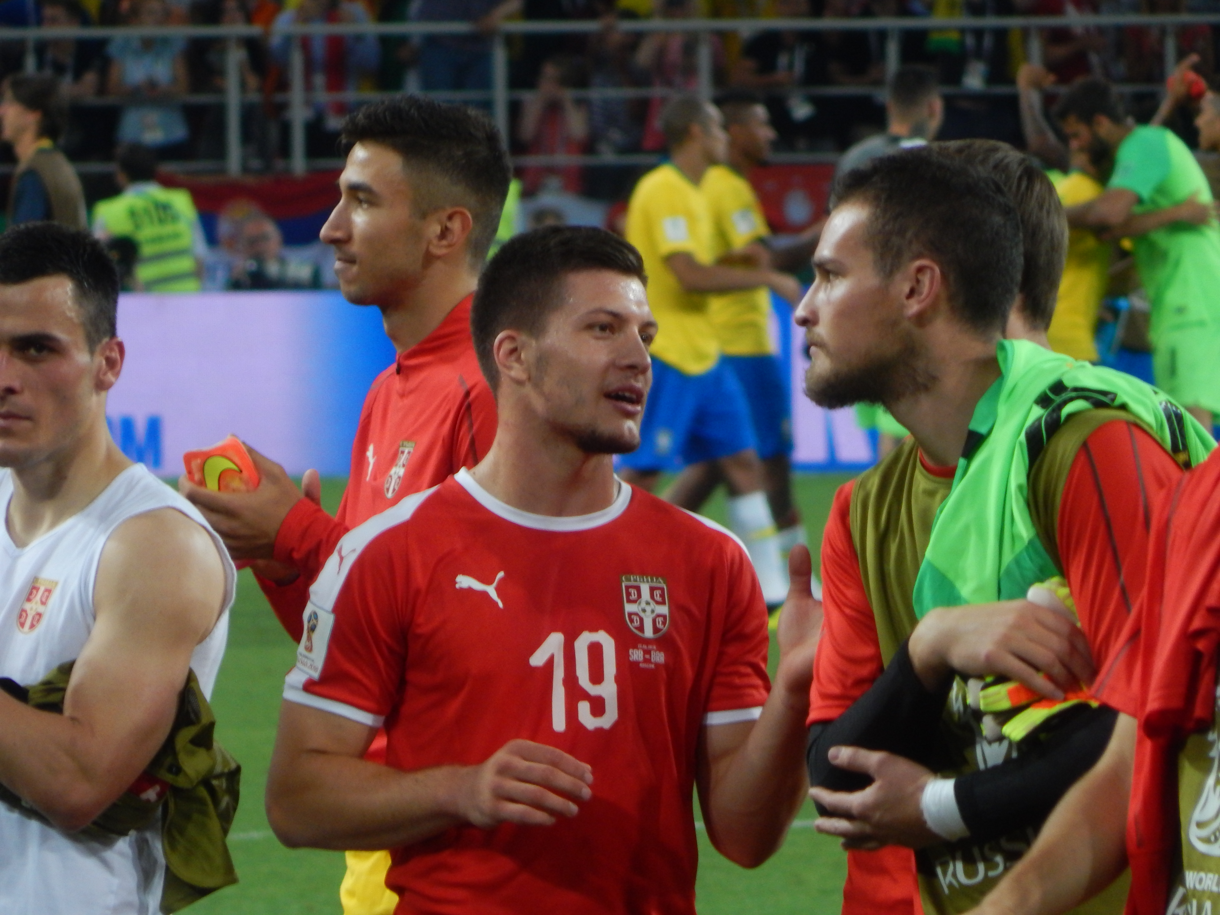 FIFA World Cup 2018, Group E, Serbia vs. Brazil